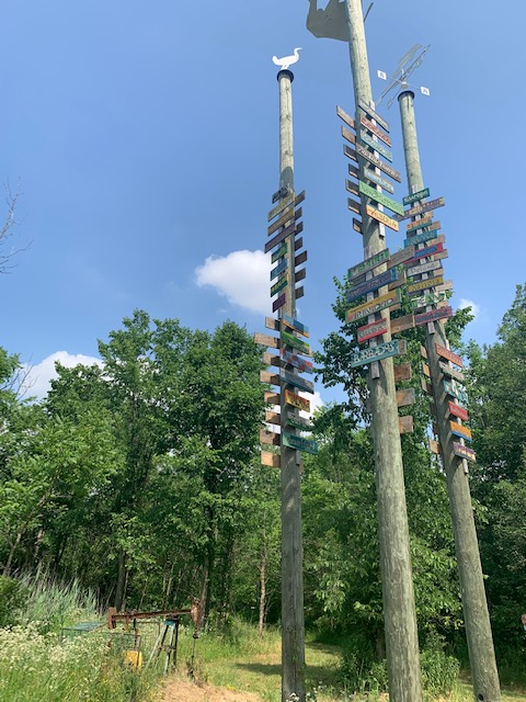 A photograph of the International Drillers Art Exhibit at the Fairbank Oil Nature Trail in Oil Springs, Ontario. Each hand-carved sign represents a country the International Drillers travelled to, and each pole represents a content. Artist Geri Binks created the exhibit.